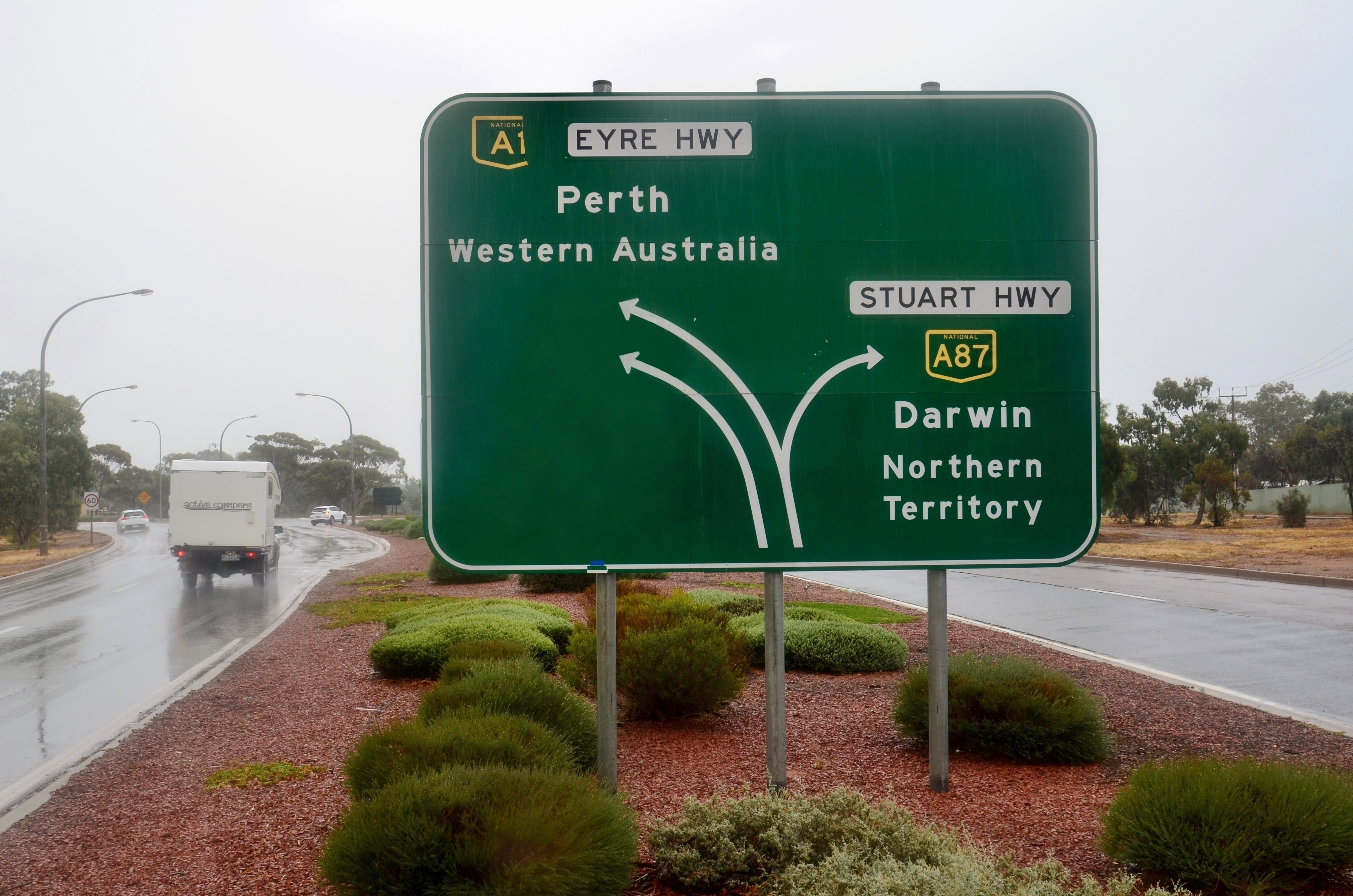 Highway sign at the junction of the Eyre Highway, Stuart Highway and Augusta Highway near the western edge of Port Augusta, South Australia, showing the directions to Perth and Darwin